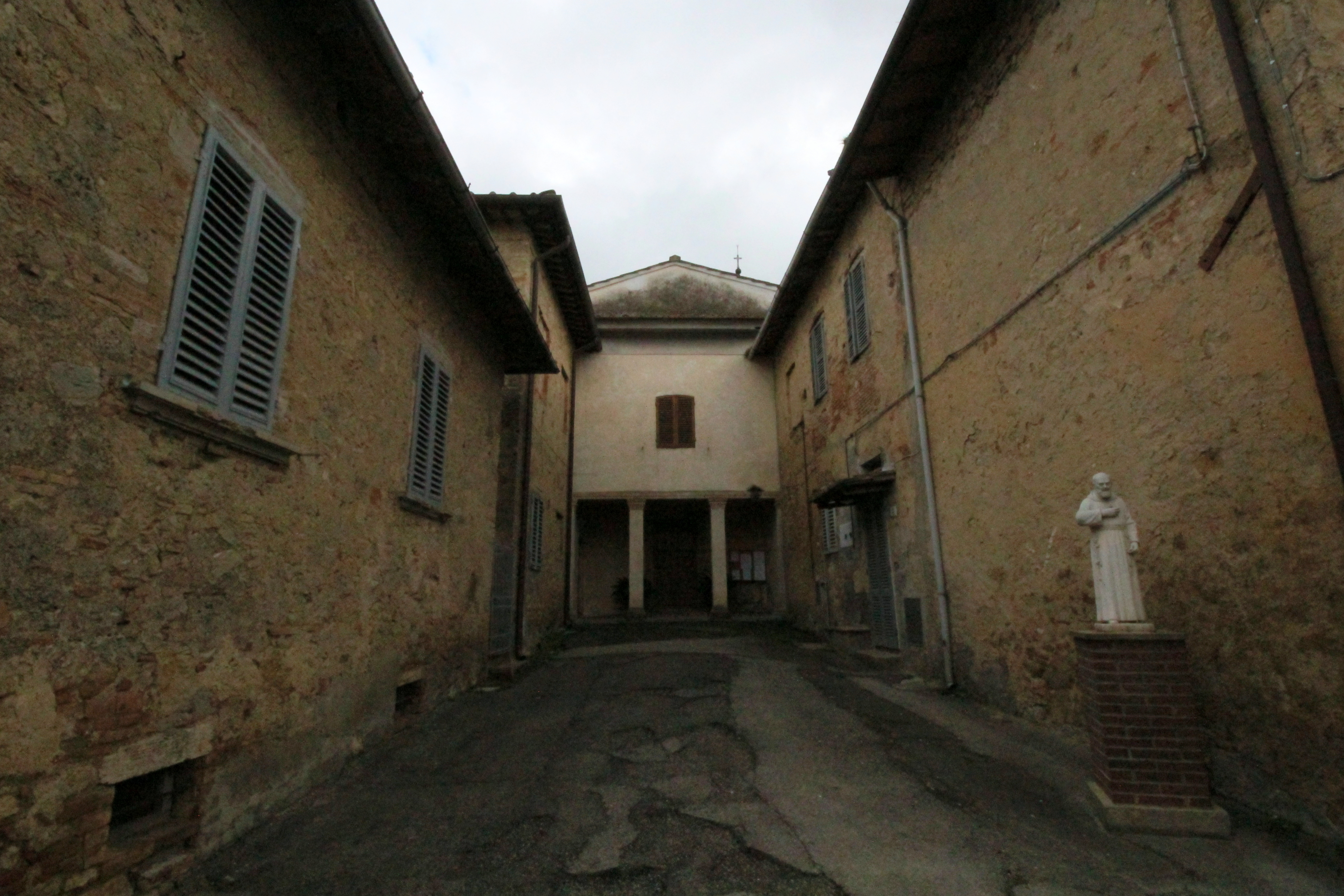 Church Santa Maria Assunta, Lecchi di Staggia, hamlet of Poggibonsi, Province of Siena, Tuscany, Italy